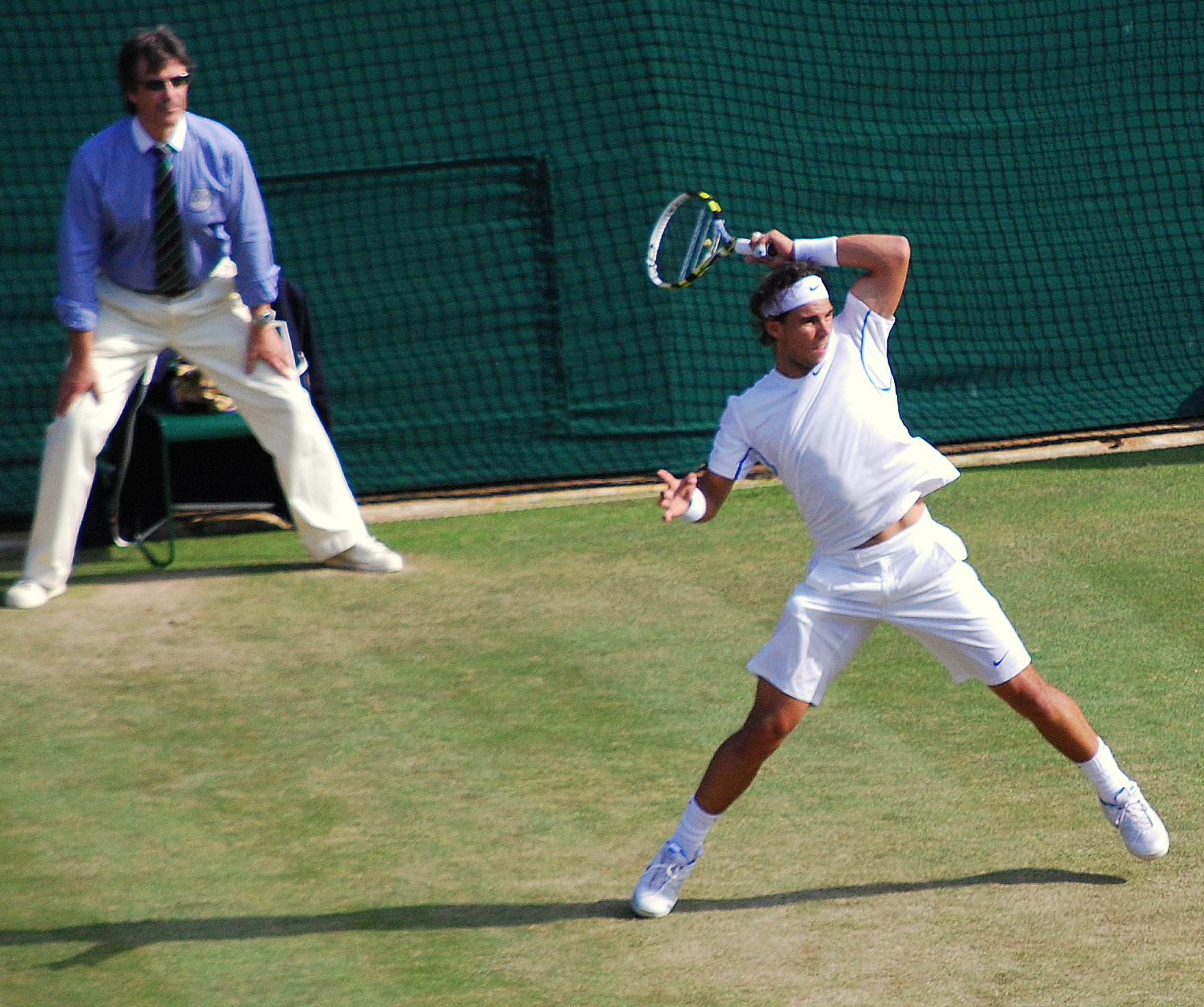 Rafael Nadal during his quarter-final with Mardy Fish. Nadal won 6-3, 6-3, 5-7, 6-4. Day 9 of Wimbledon 2011.